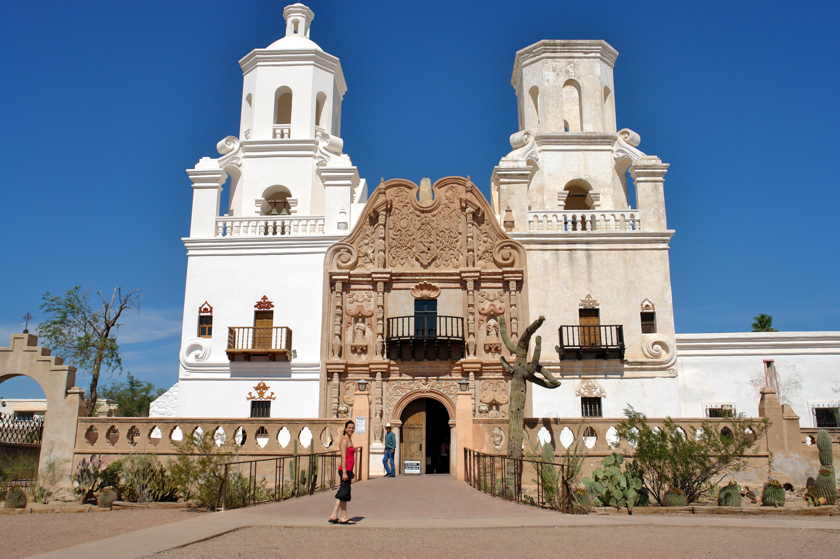 In the desert, on an Indian reservation just 10 miles southwest of Tucson, lies the beautiful, historic, Spanish Catholic San Xavier del Bac Mission (nicknamed 'White Dove of the Desert.'). One of the finest remaining examples of Baroque Spanish colonial architecture, it was built from 1783 and 1828 by the Tohono O'odham tribe, under the direction of Spanish Franciscans.